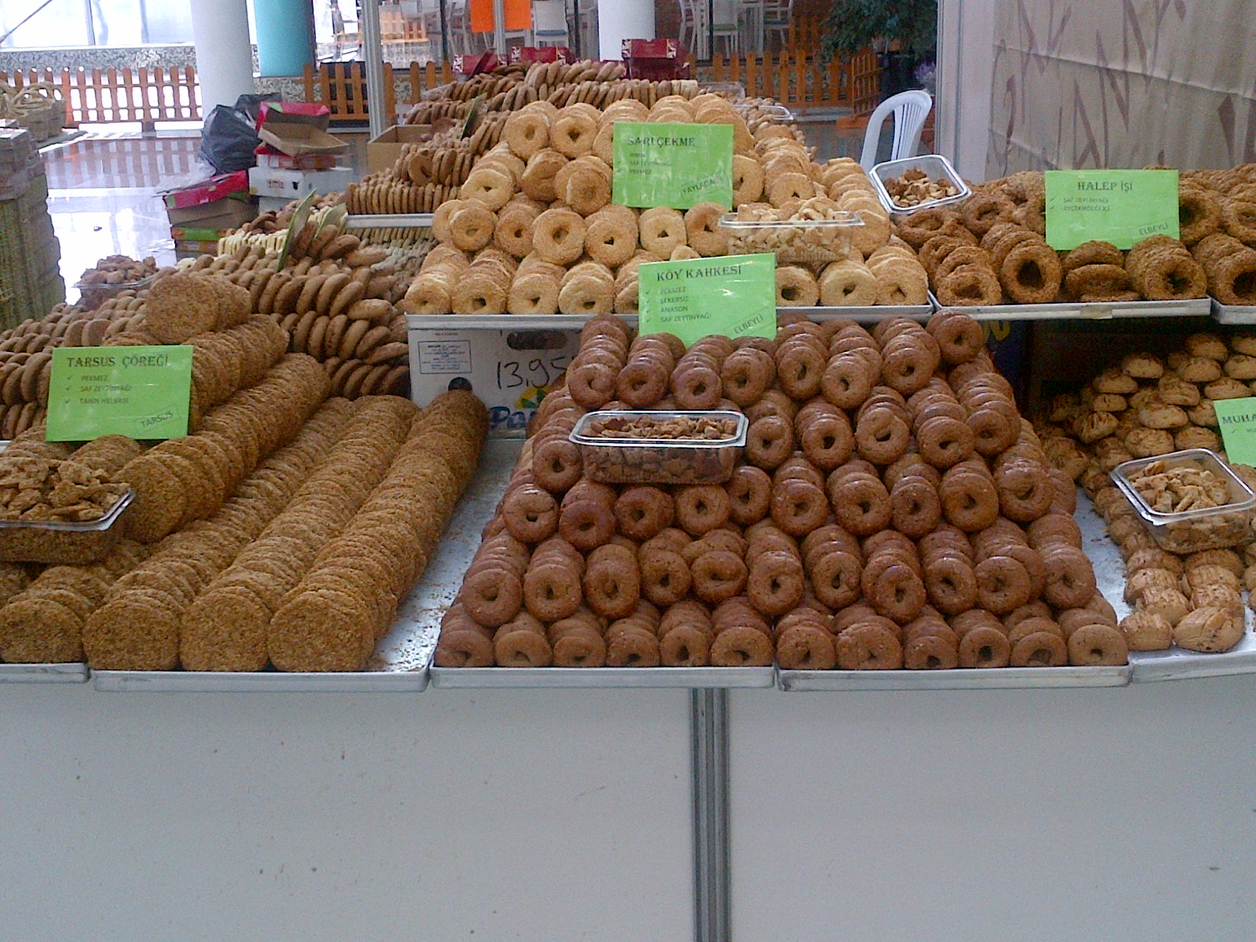 "Tarsus çöreği", "kahke", and other cookies at a food market in Ankara